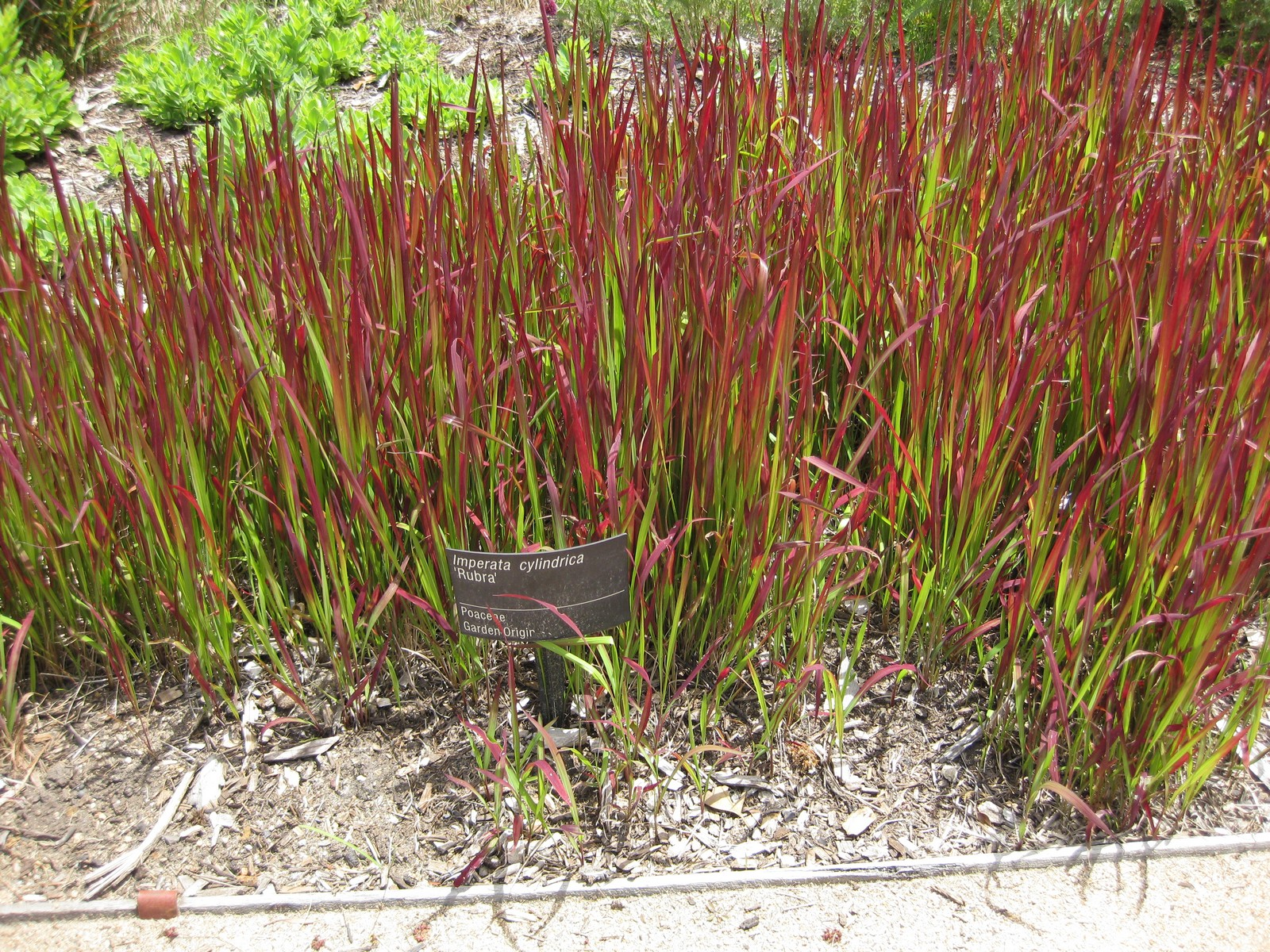 Photographed at the Royal Botanic Gardens Melbourne (Australia) in December